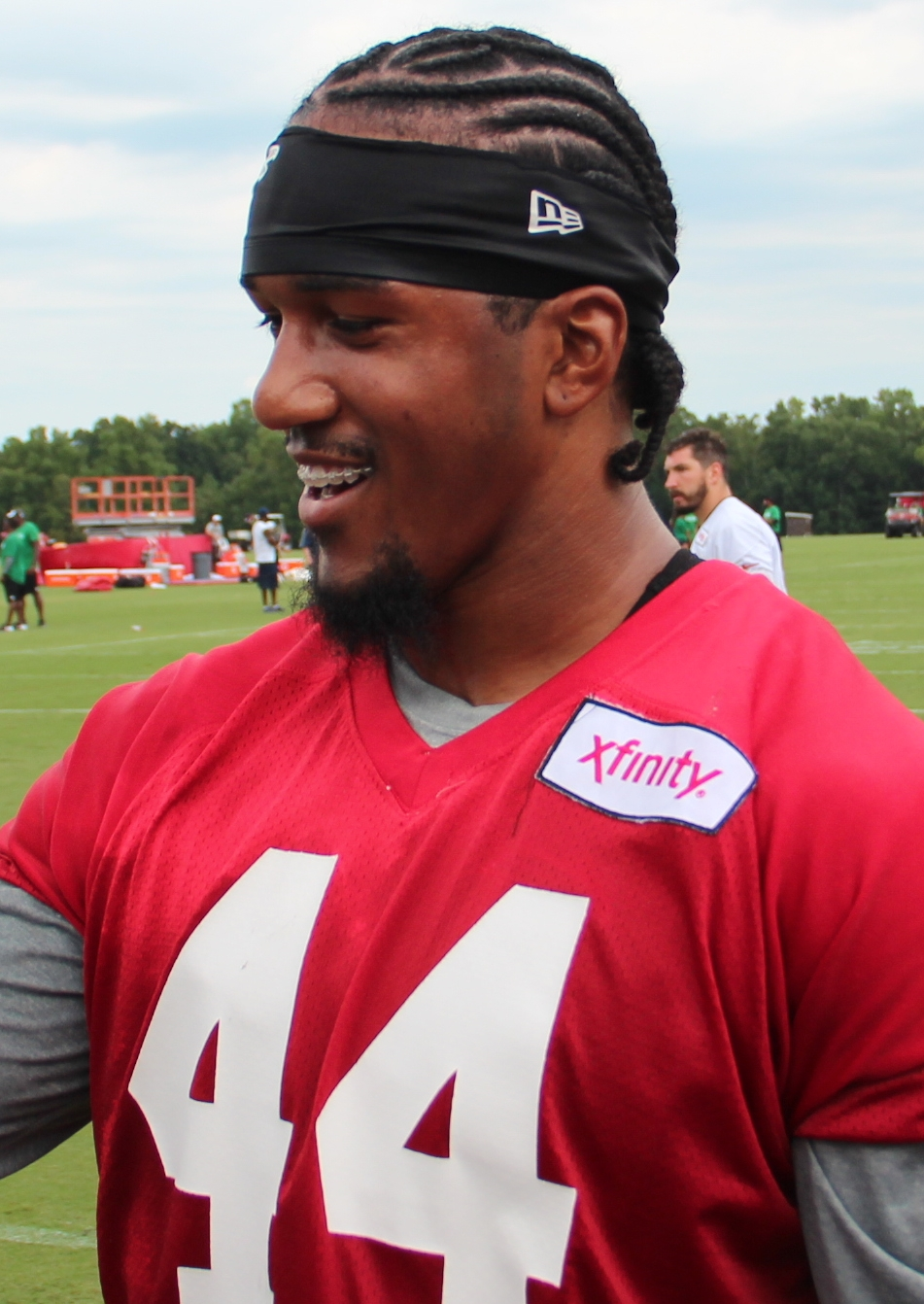 Vic Beasley at Falcons training camp, 2015